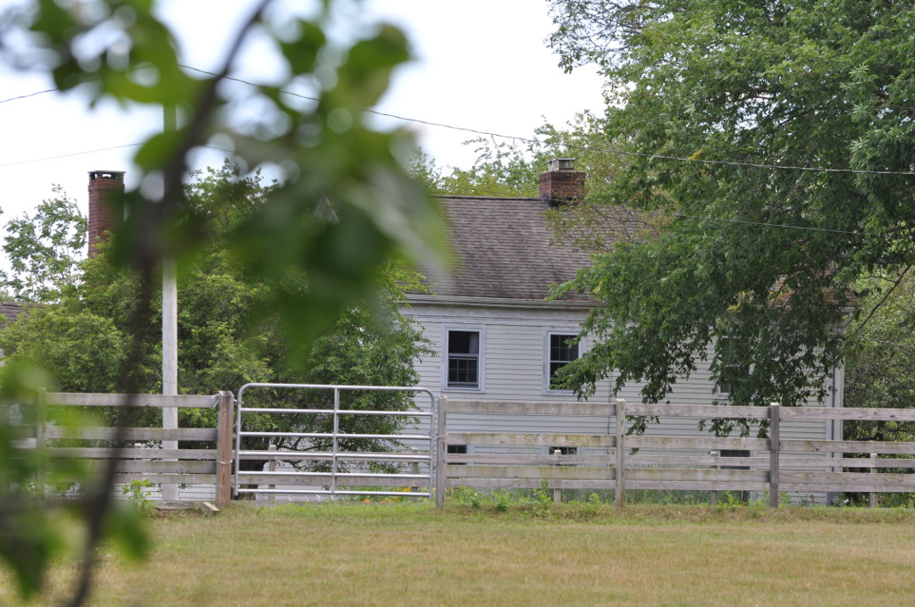 Abel H. Fish House, back side, Salem, Connecticut.